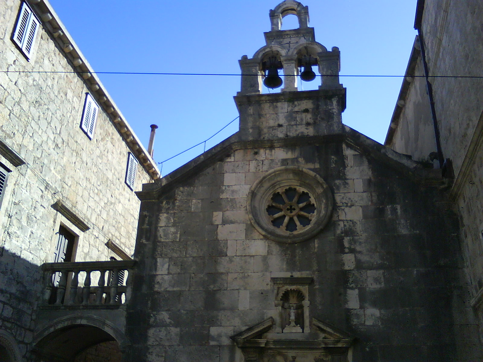 St. Mihovila Church in the old city of Korčula